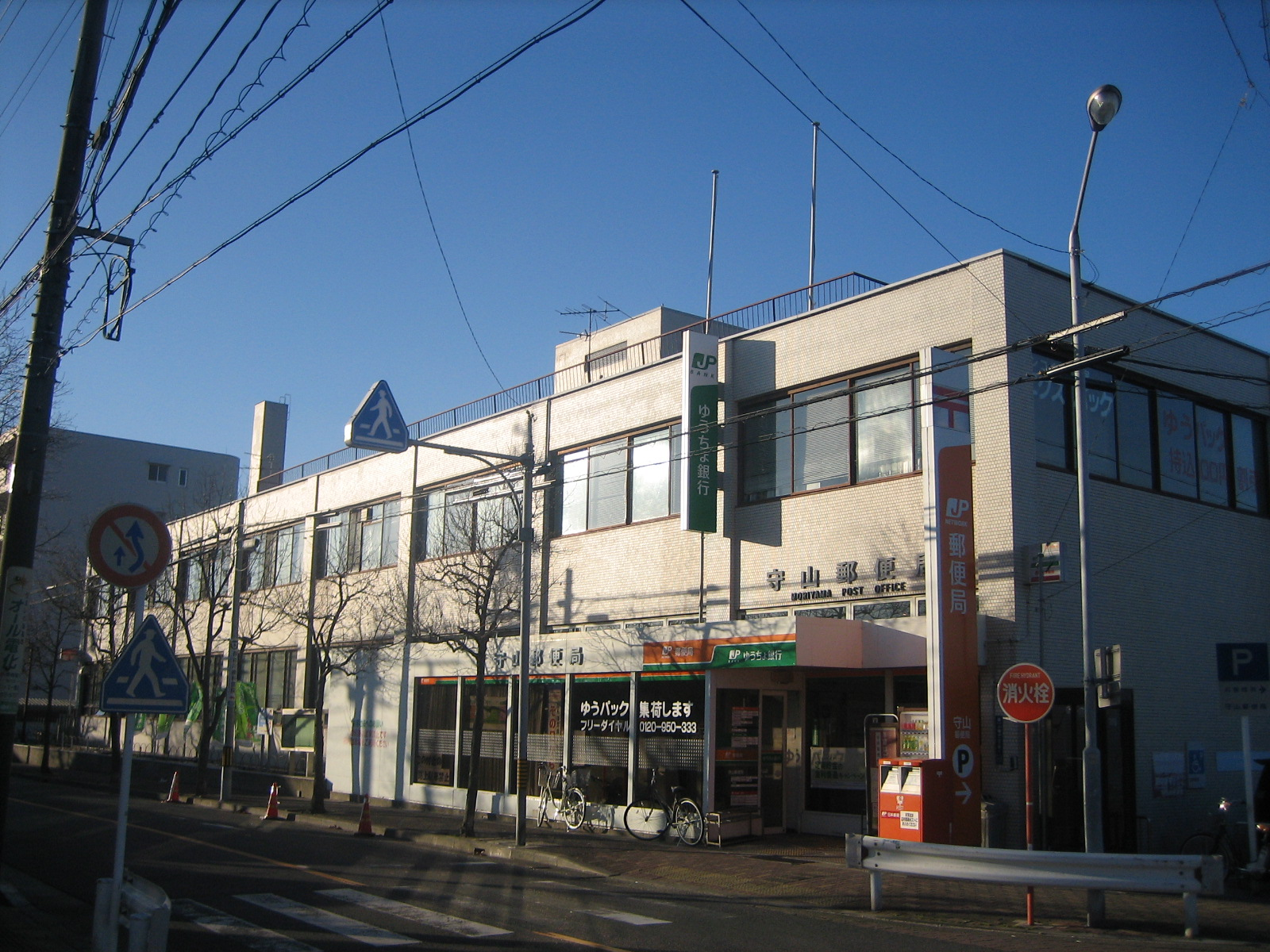 Moriyama post office in Aichi, Japan